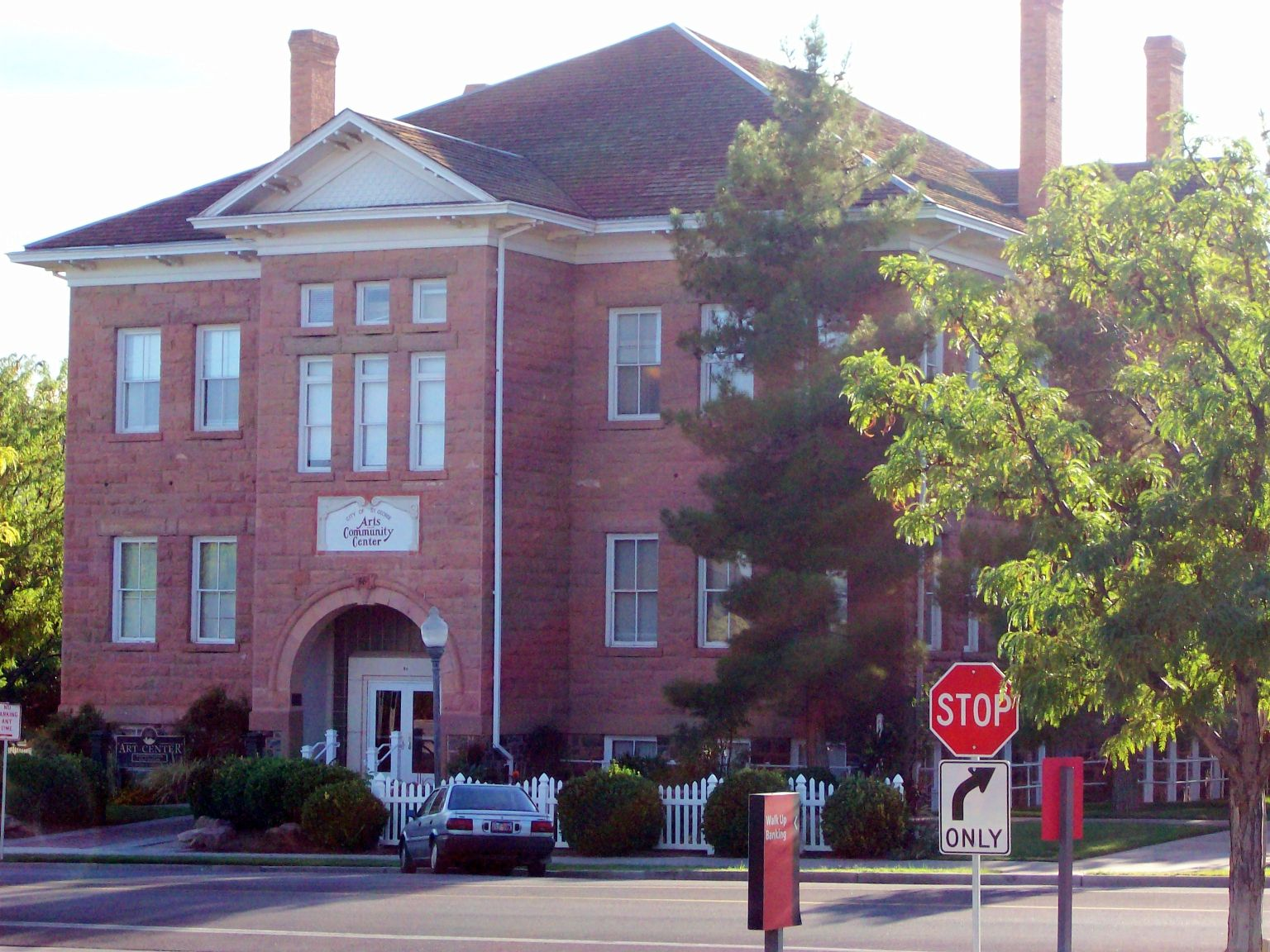 Taken by uploader 8/18/2010